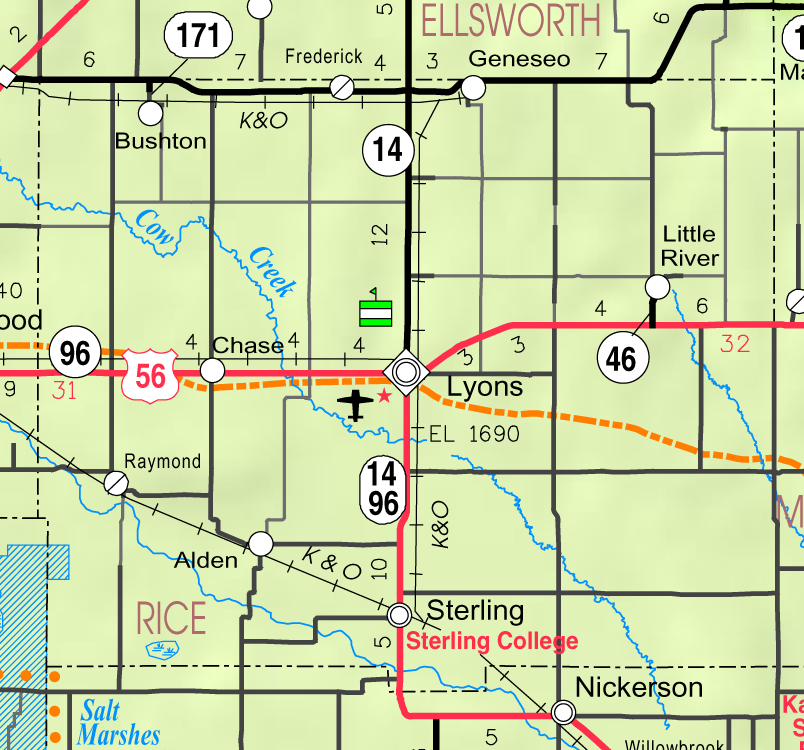 This map of Rice County, Kansas, USA, is copied at a resolution of 300 pixels/inch from the original PDF file.